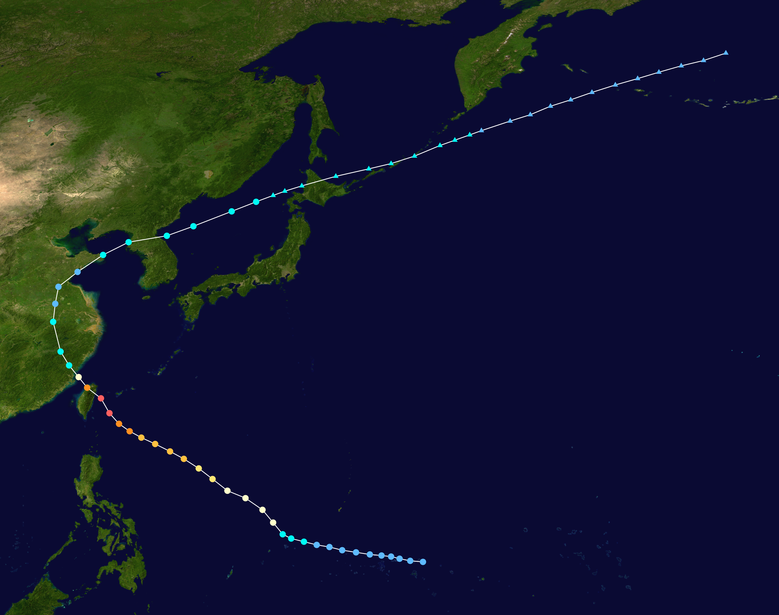 Track map of Typhoon Opal of the 1962 Pacific typhoon season. The points show the location of the storm at 6-hour intervals. The colour represents the storm's maximum sustained wind speeds as classified in the Saffir–Simpson hurricane wind scale (see below), and the shape of the data points represent the nature of the storm, according to the legend below. Saffir–Simpson hurricane wind scale Tropical depression≤38 mph≤62 km/h Category 3111–129 mph178–208 km/h Tropical storm39–73 mph63–118 km/h Category 4130–156 mph209–251 km/h Category 174–95 mph119–153 km/h Category 5≥157 mph≥252 km/h Category 296–110 mph154–177 km/h Unknown Storm typeTropical cycloneSubtropical cycloneExtratropical cyclone / Remnant low / Tropical disturbance